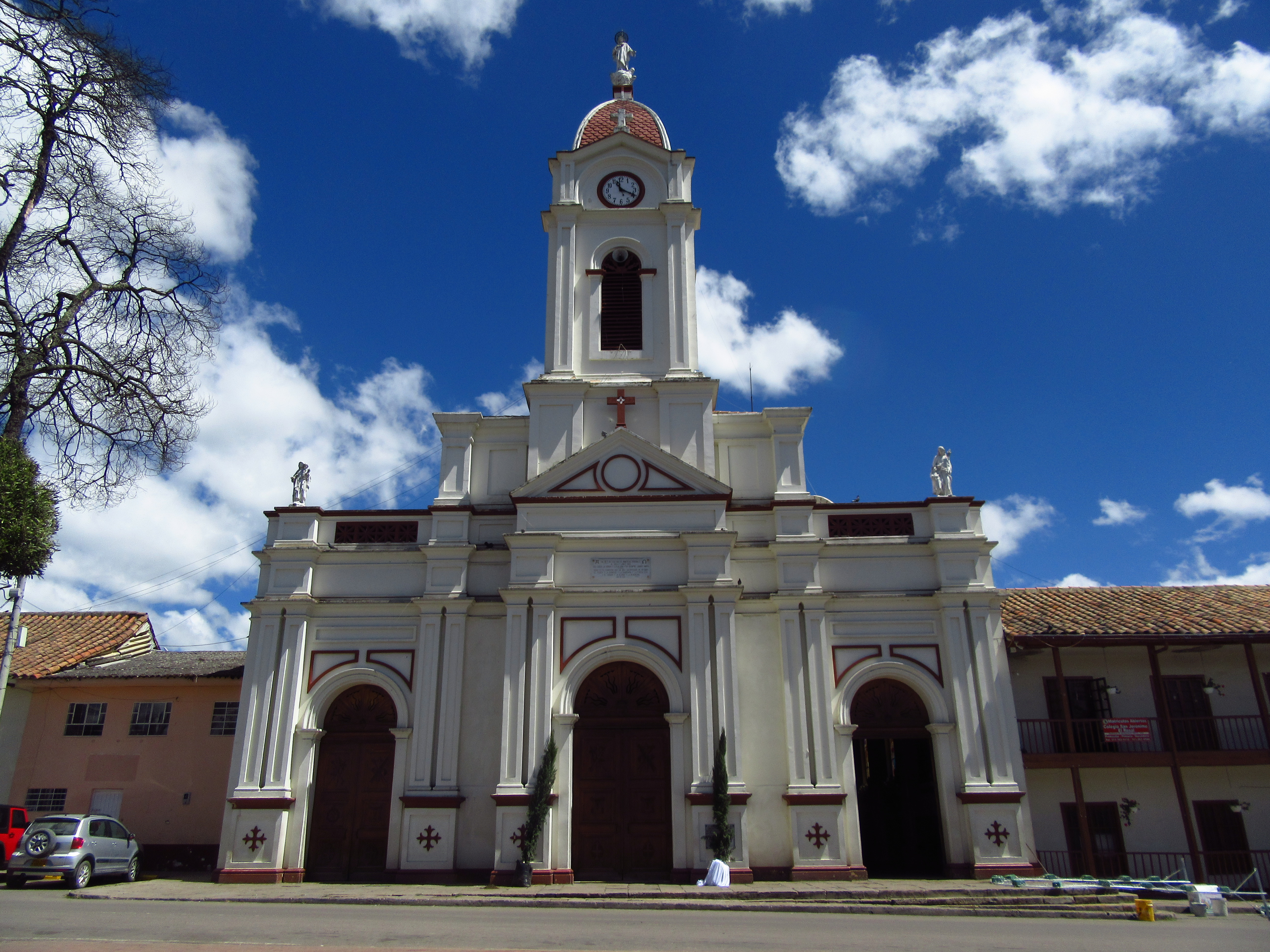 Subachoque